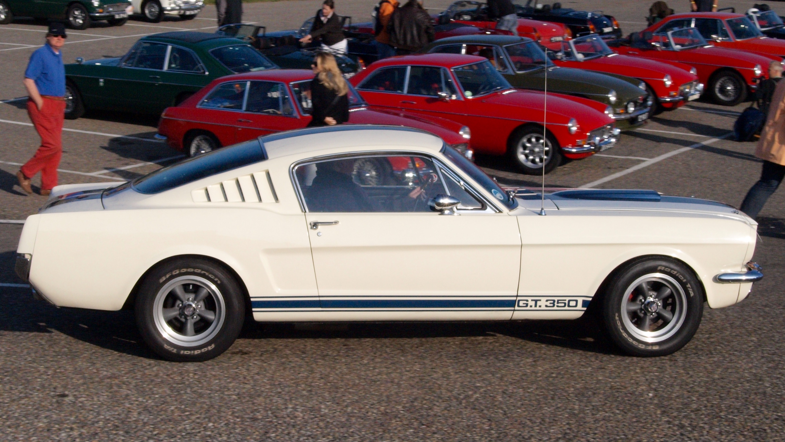 Photographed at the Nationaal Oldtimer Festival Zandvoort 2009, The Netherlands. OLYMPUS DIGITAL CAMERA